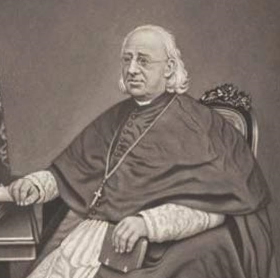 Archbishop John Bede Polding